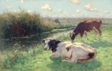 Bisbing, Henry Singlewood (1849-1933). A Sunny Afternoon. oil on canvas.22 x 37